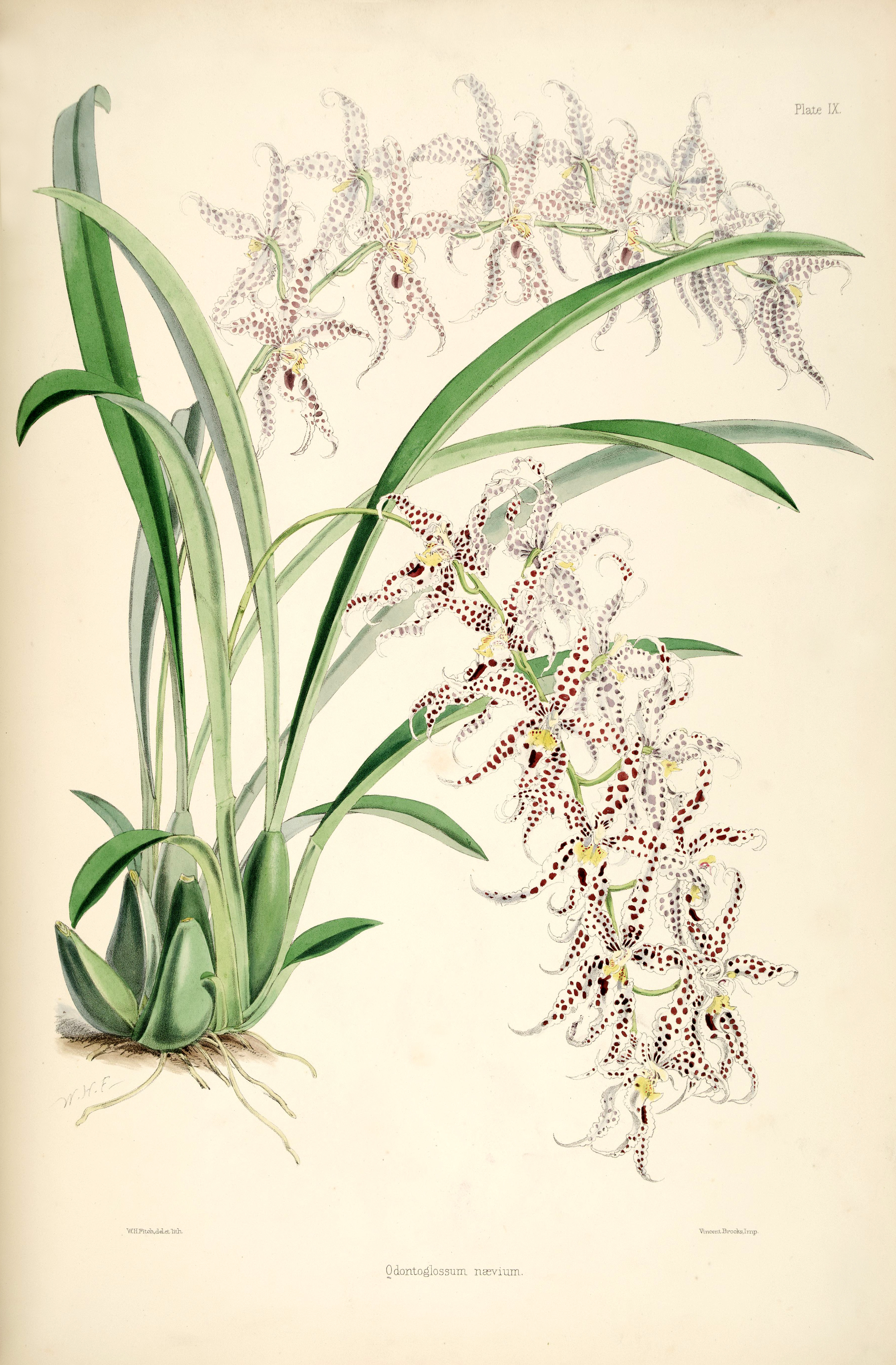 Illustration of Odontoglossum naevium